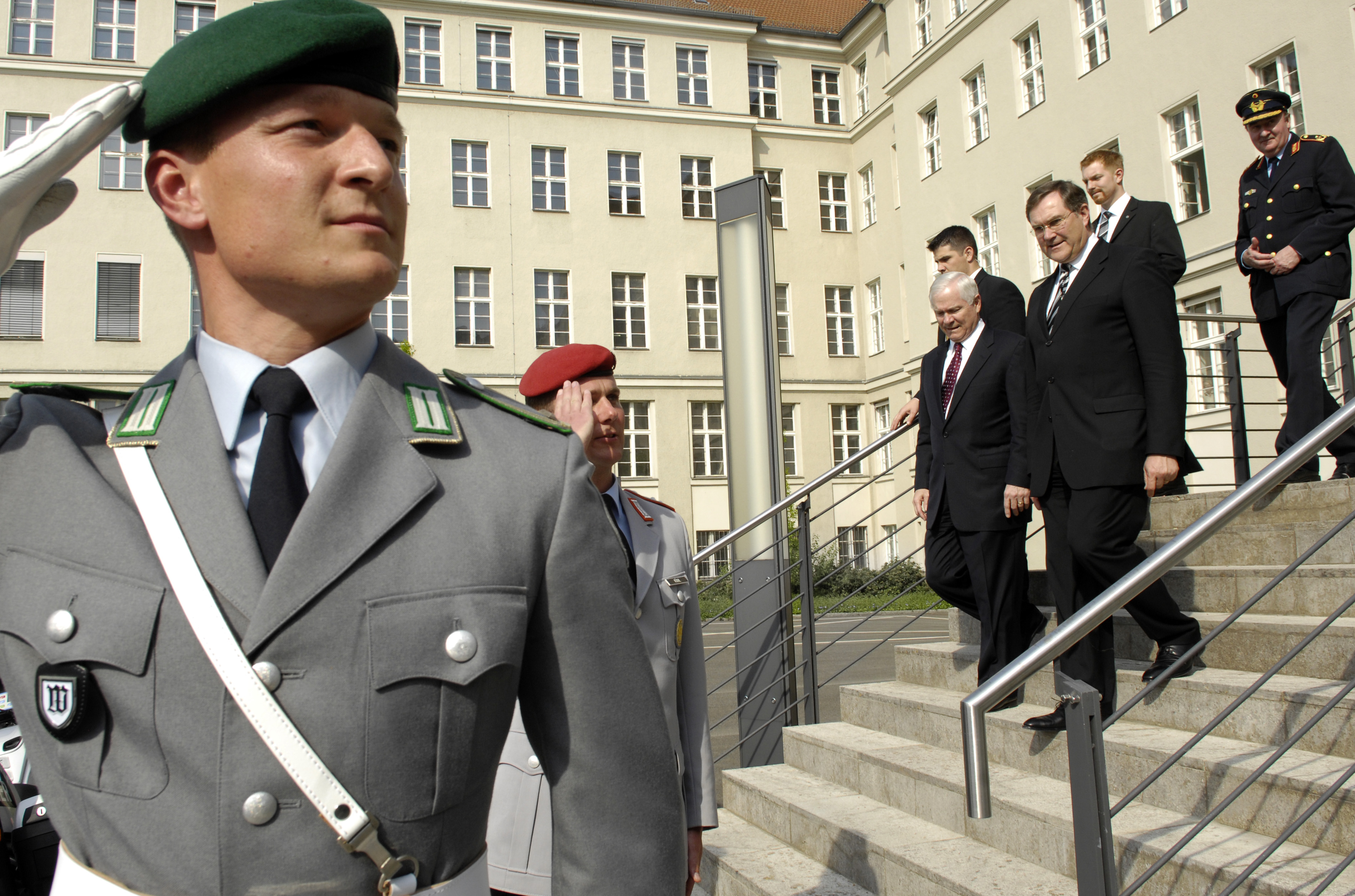 German military members salute as U.S. Defense Secretary Robert M. Gates and German Minister of Defense Franz Josef Jung exit the Ministry of Defense in Berlin, April 25, 2007.